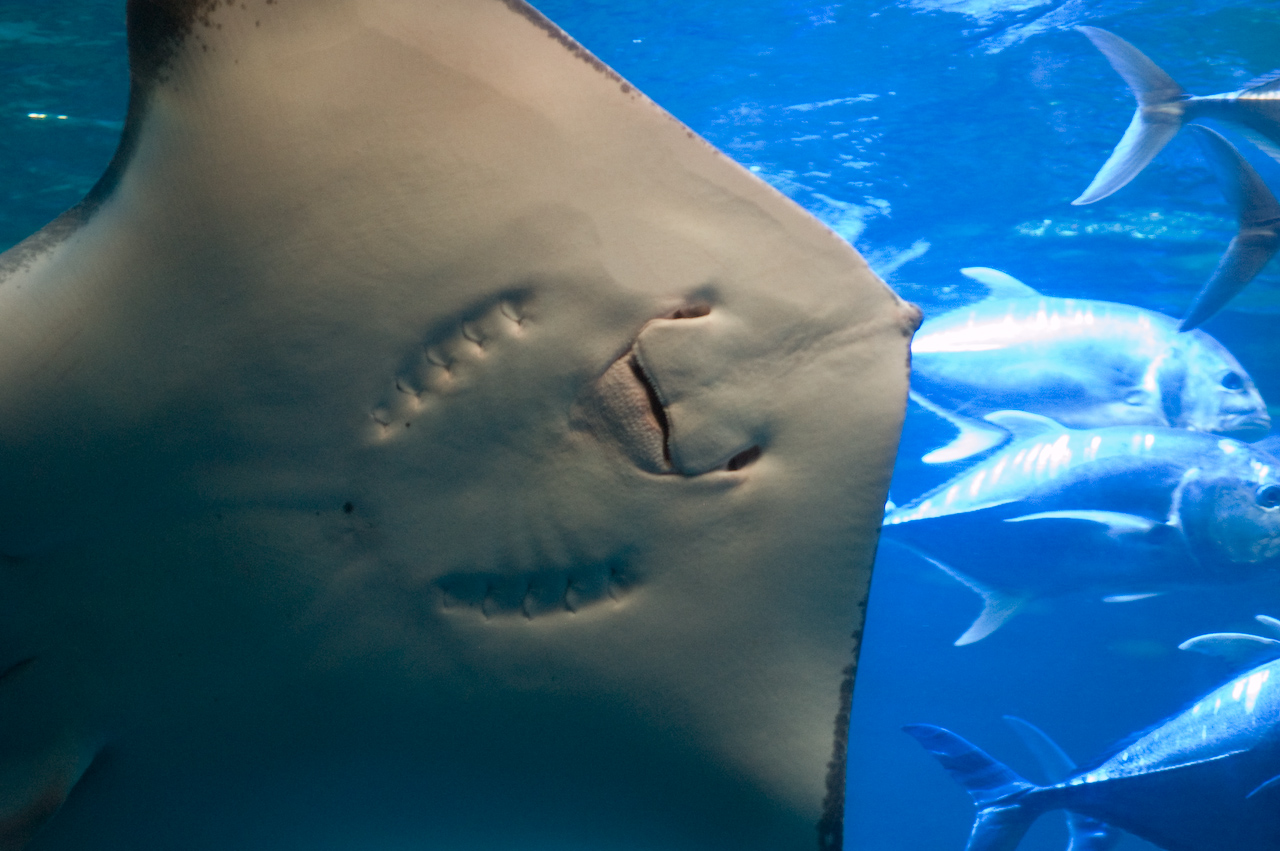 Brown stingray (Dasyatis lata) at the Maui Ocean Center